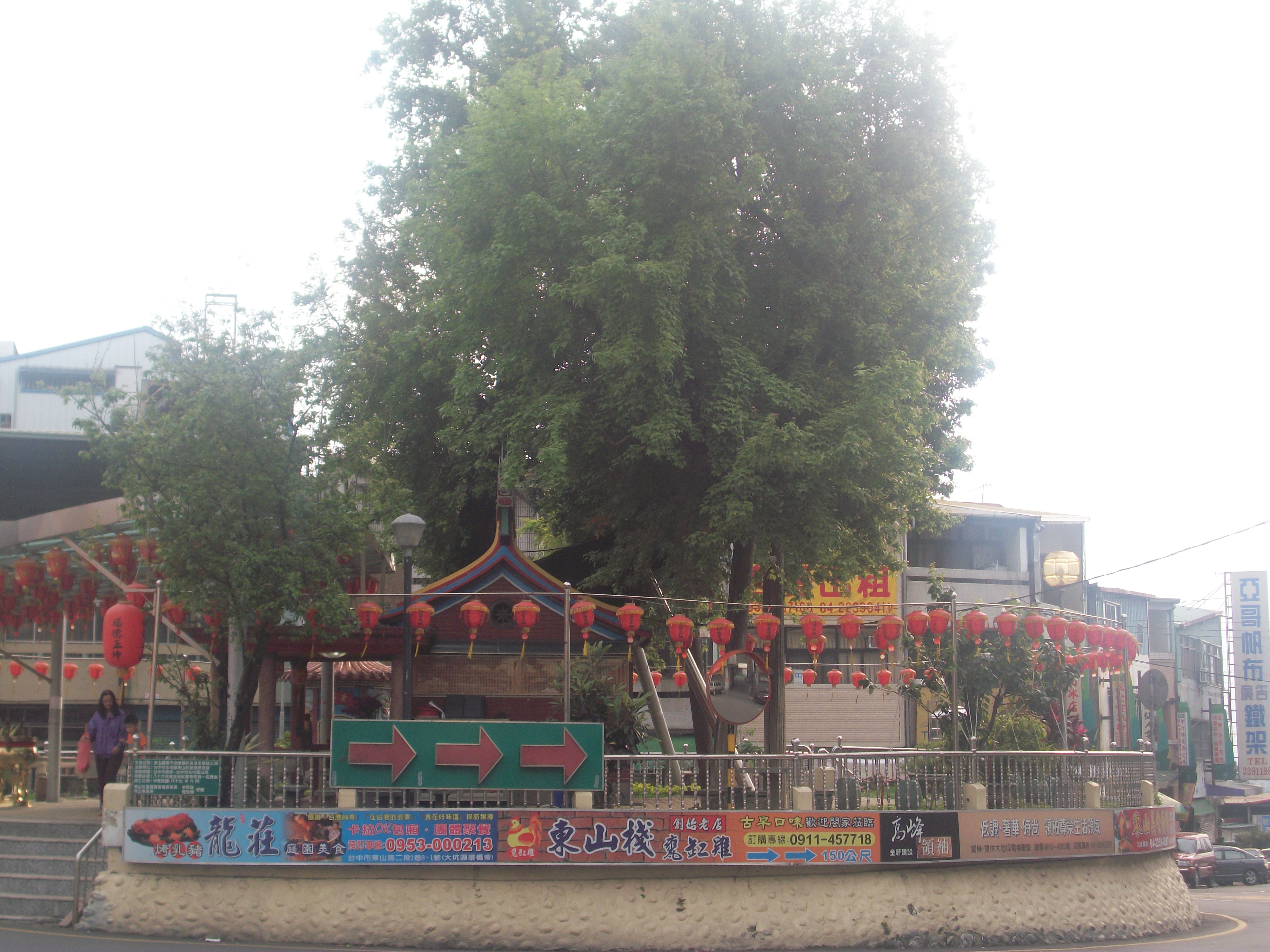 Dakeng Roundabout located at Dakeng in Taichung City,approach from Dongshan Road.中文（台灣）: 大坑圓環位在臺中市大坑，在東山路的近照。